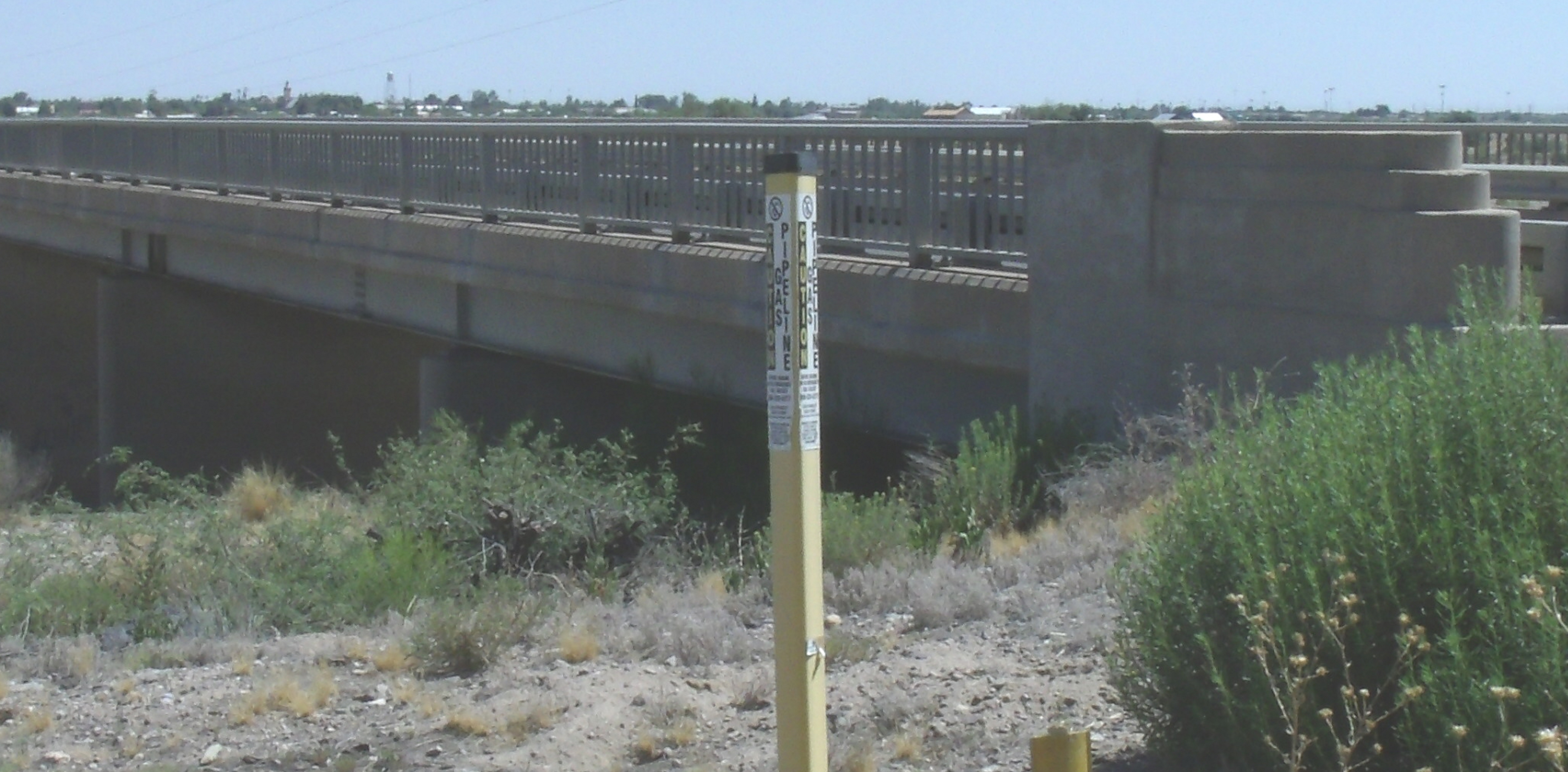 Old historic Florence Bridge rebuilt in 1909 in Florence, Az.